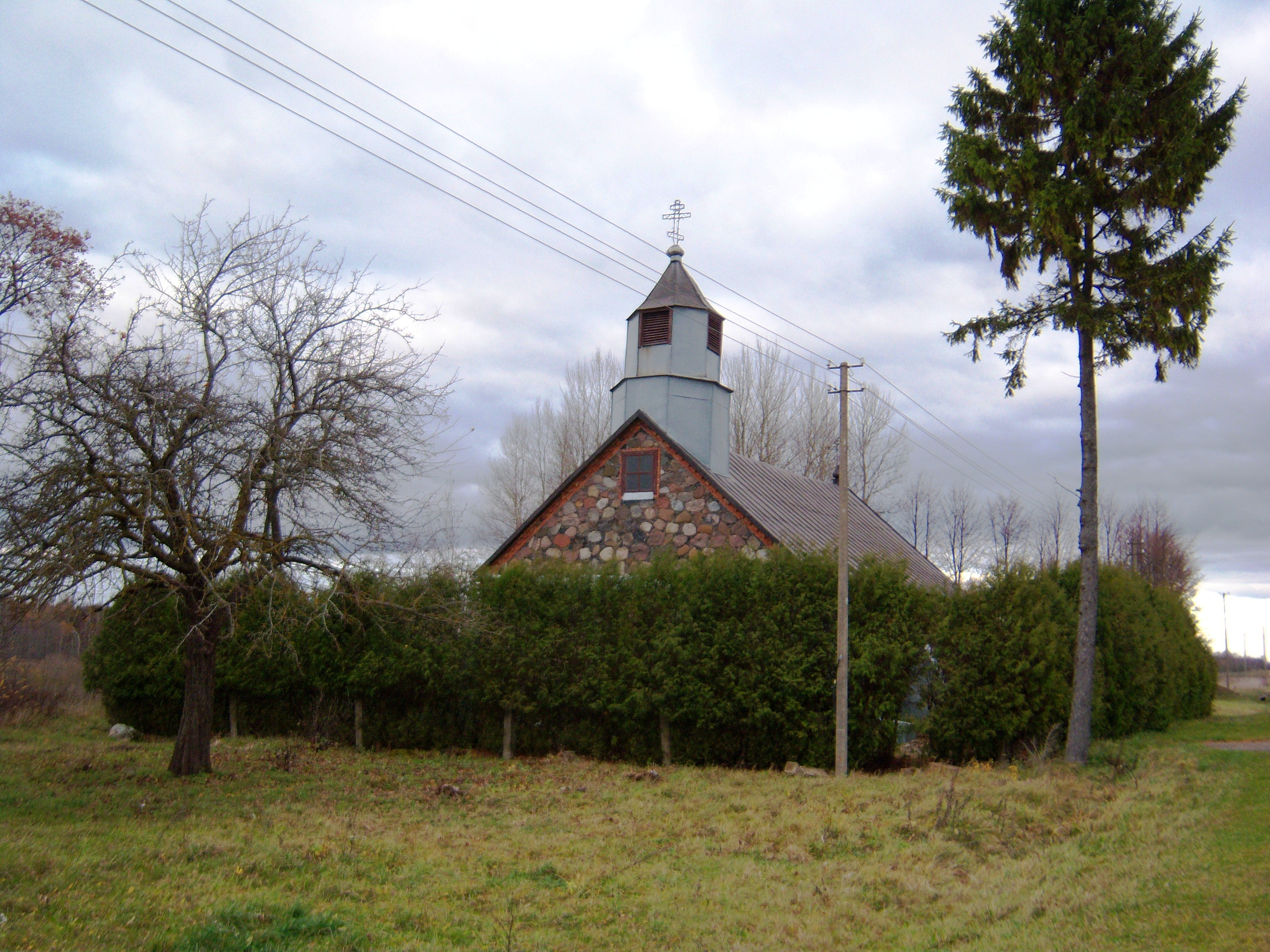 Orthodox Church of Old Believers in Bagdonys, Kupiškis District, Lithuania